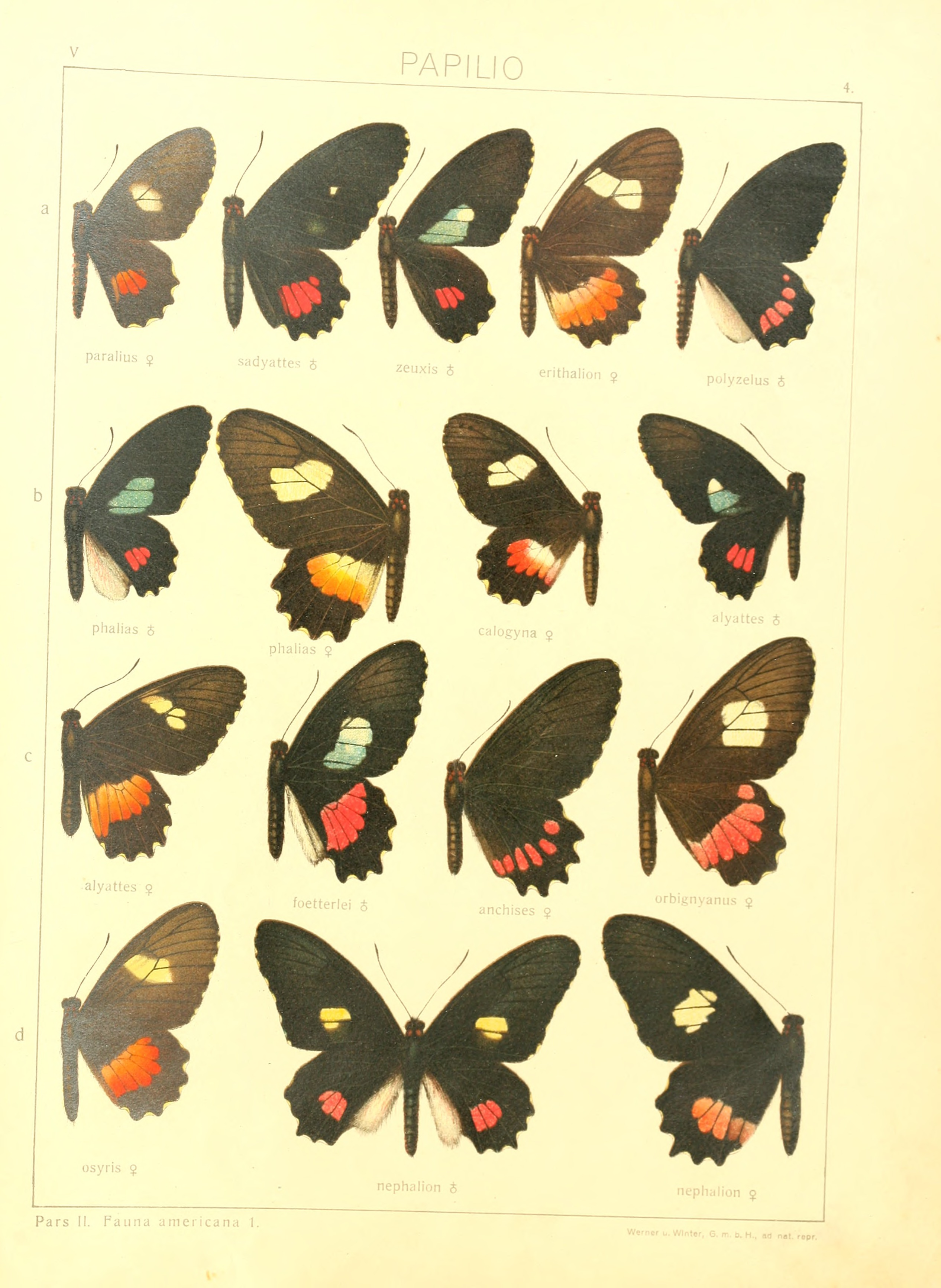 a.1.: Wedge-spotted Cattleheart, female, upperwing; a.2., a.3., a.5.: Variable Cattlehearts, males, upperwings; a.4.: Variable Cattleheart, female, upperwing b. Papilio iphidamas phalias R. & J. = Parides iphidamas phalias (Rothschild & Jordan, 1906), ♂, upperwing Papilio iphidamas phalias R. & J. = Parides iphidamas phalias (Rothschild & Jordan, 1906), ♀, upperwing Papilio iphidamas calogyna R. & J. = Parides iphidamas calogyna (Rothschild & Jordan, 1906), ♀, upperwing Papilio anchises alyattes Fldr. = Parides anchises alyattes (C. & R. Felder, 1865), ♂, upperwing